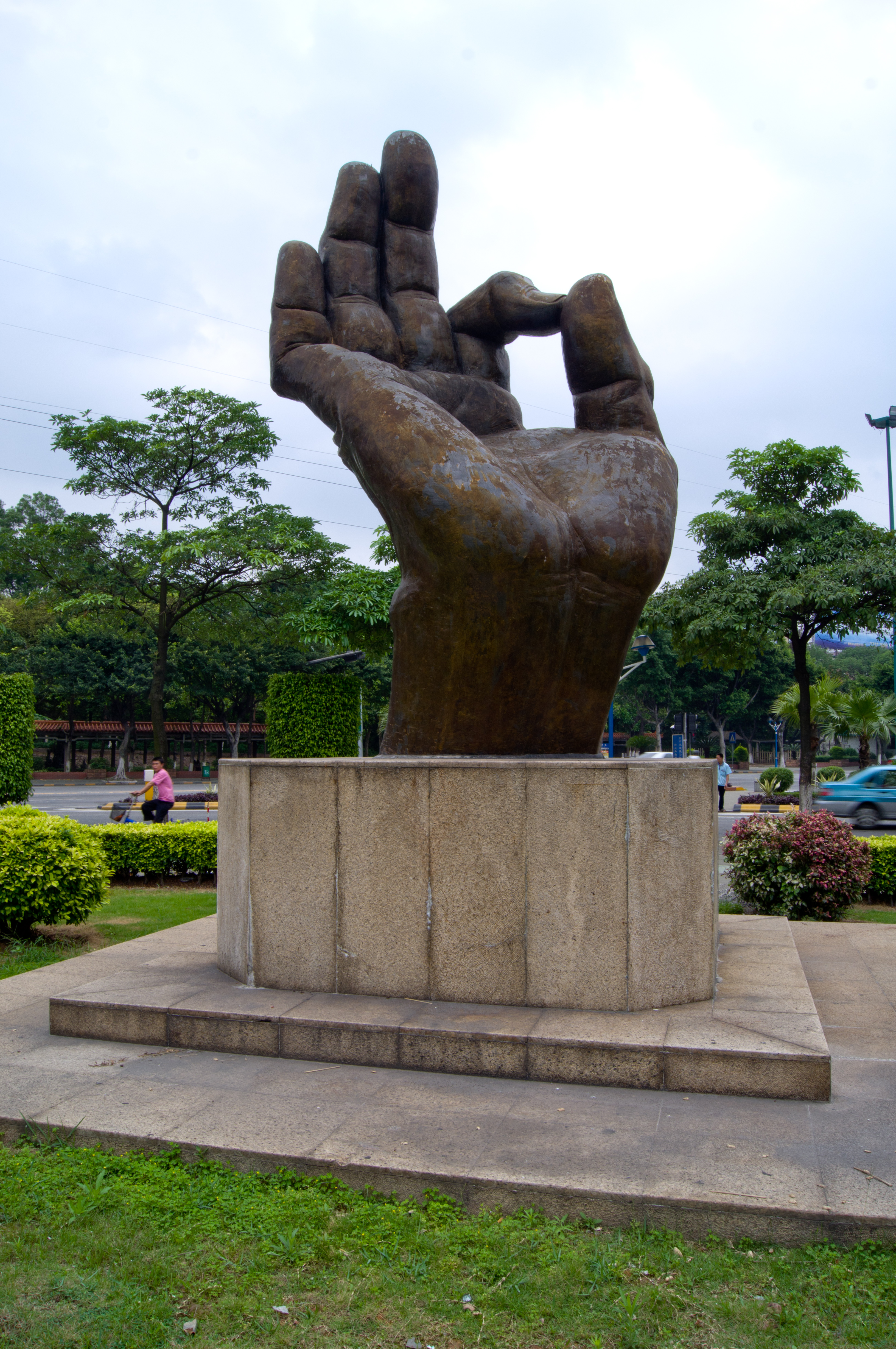 OK copper sculpture in Ronggui, the emblem of Ronggui.